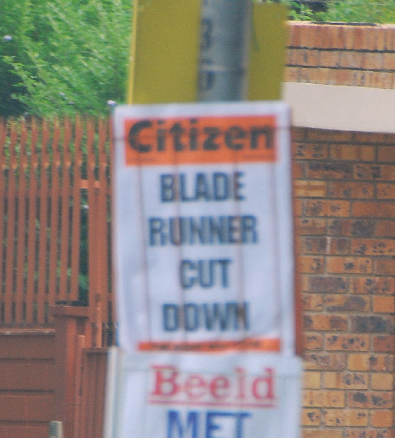 Poster of the South African tabloid newspaper The Citizen showing the headline "Blade Runner cut down", a reference to the South African runner Oscar Pistorius being ruled by the International Association of Athletics Federations (IAAF) as ineligible for competitions conducted under IAAF rules, including the 2008 Summer Olympics. Photographed in Johannesburg, South Africa.